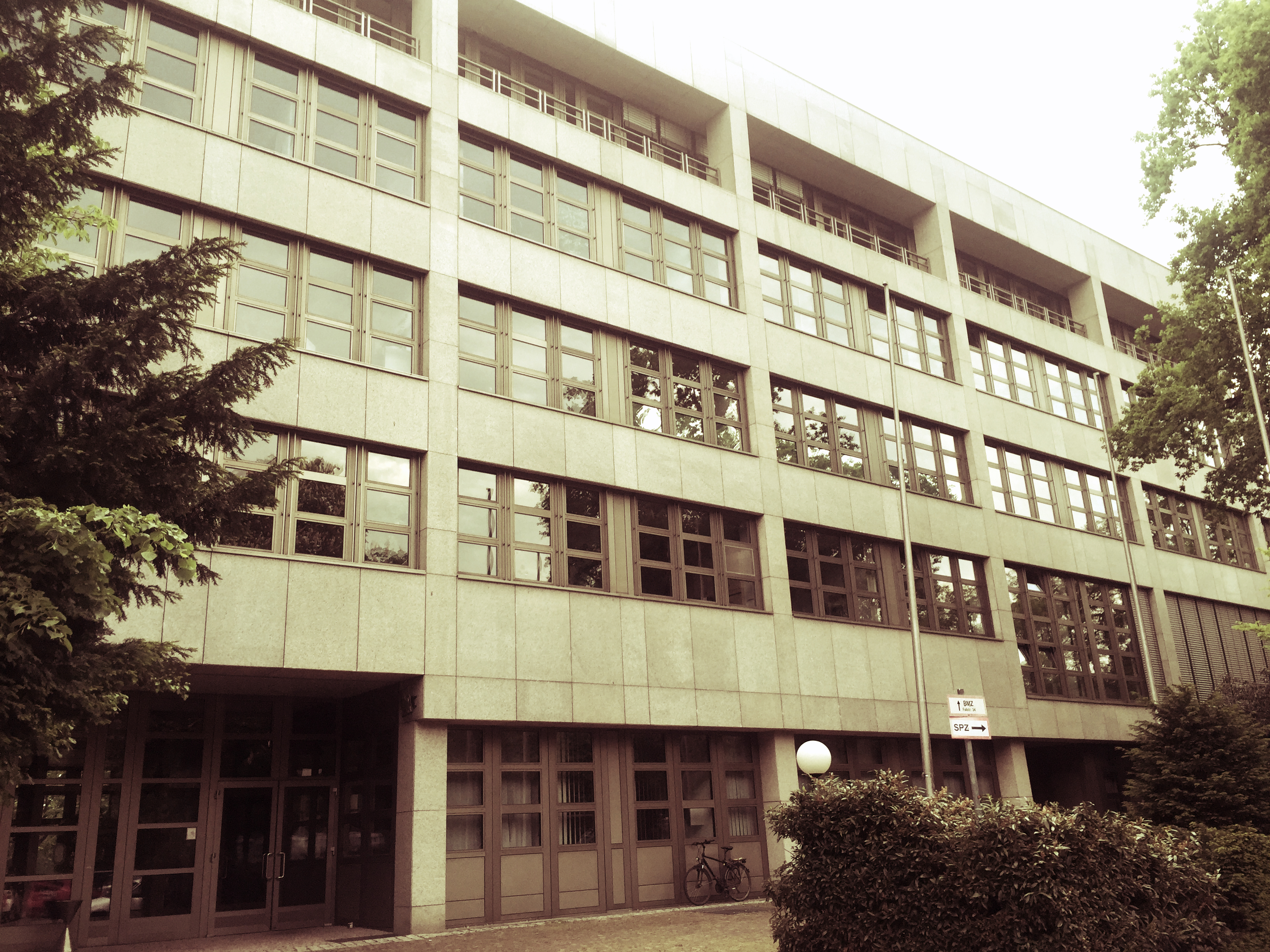 Zahnärztehaus München